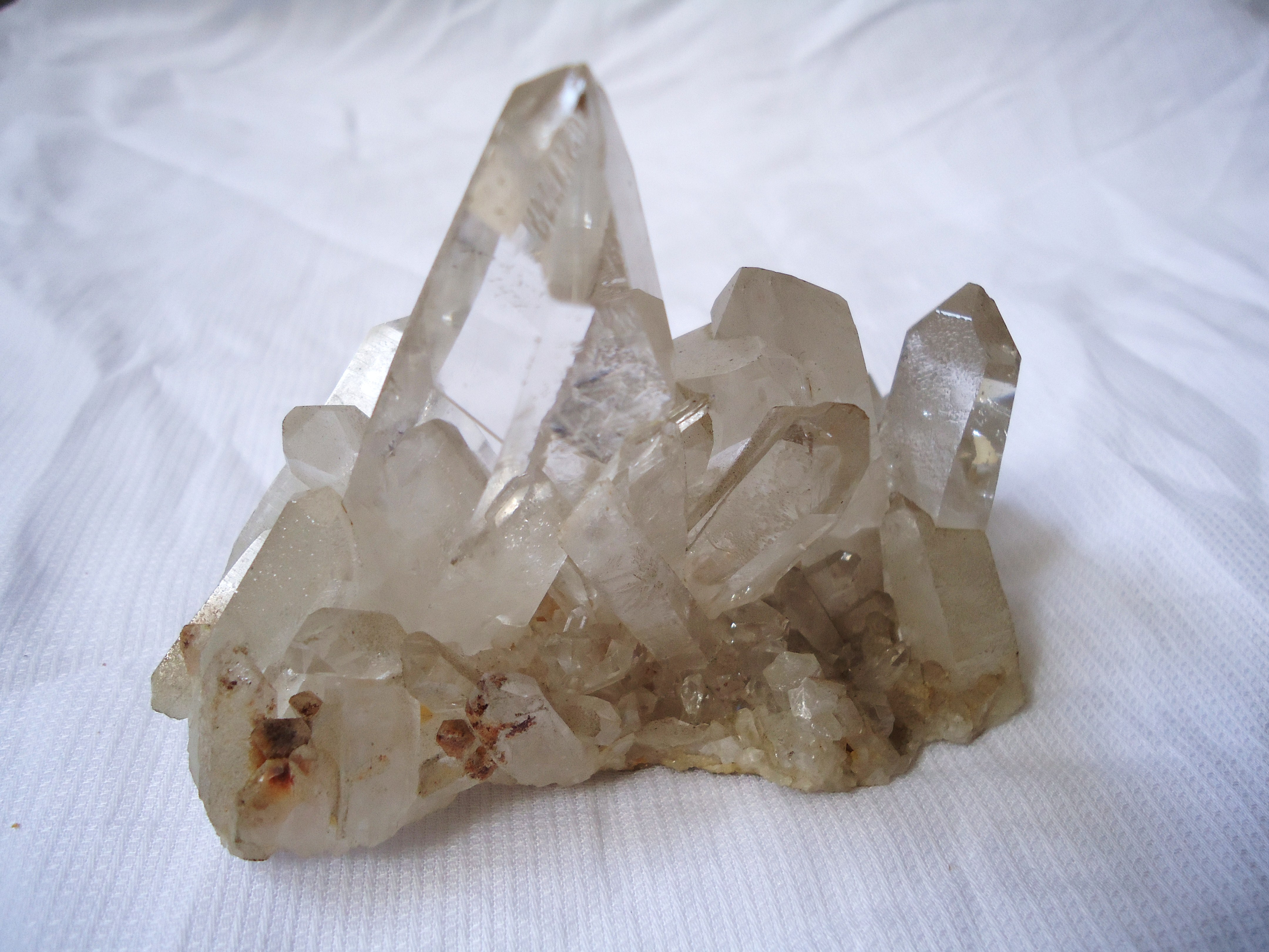 Brazilian rock crystal. Photo: Mauro Cateb